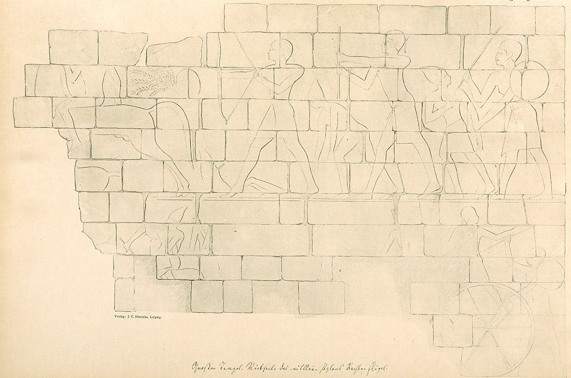 Relief showing a battle between Kushites and Assyrians